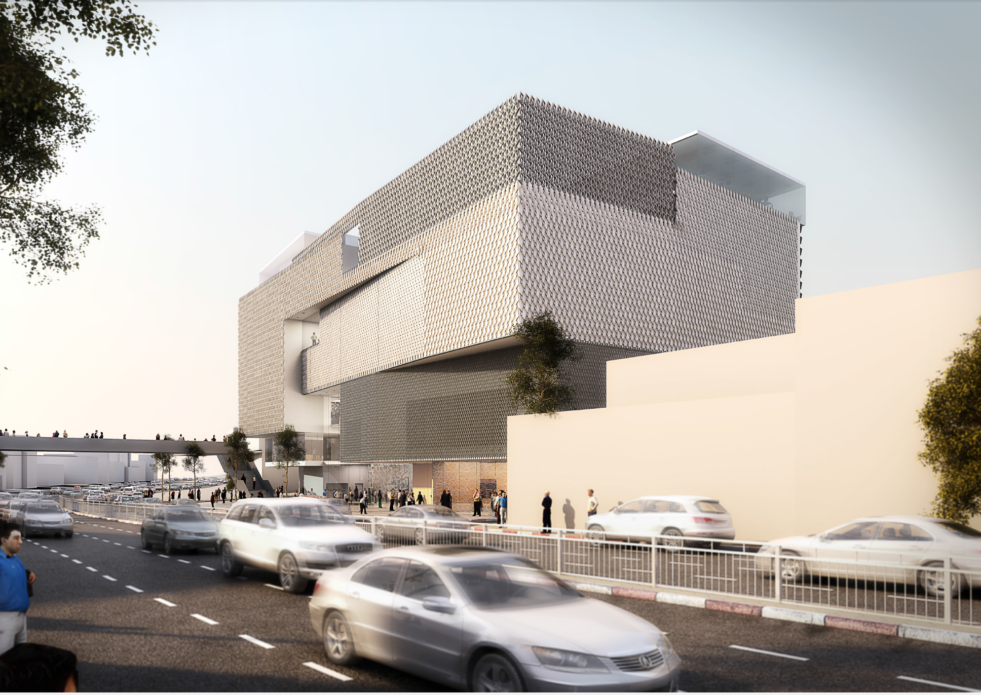 Arter, Dolapdere, architectural rendering Grimshaw Architects